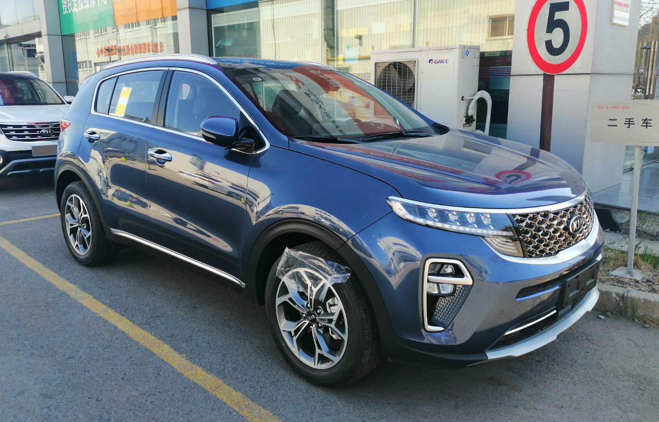 Kia KX5 facelift photographed in Beijing, China.